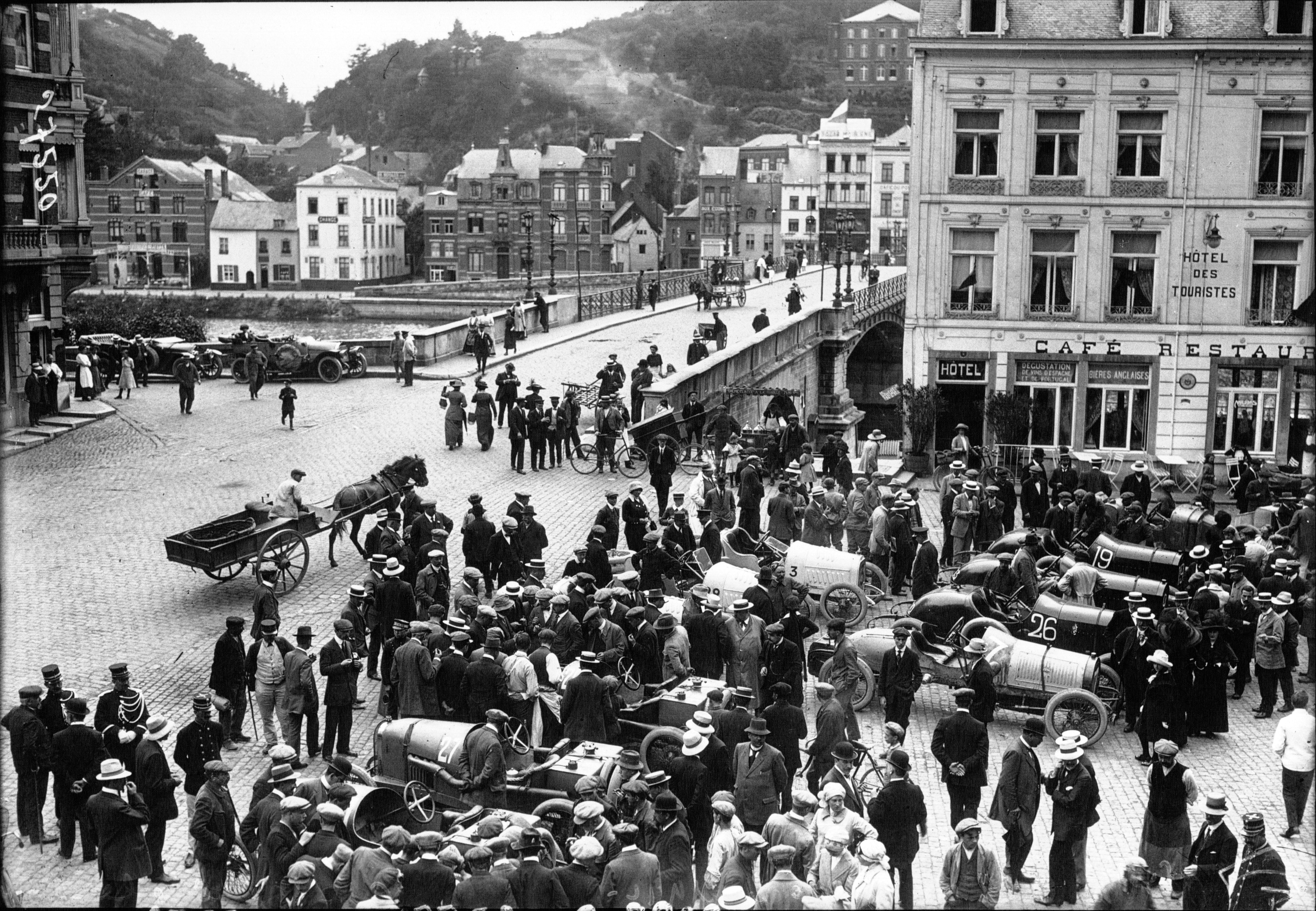 View at the 1912 Belgian Grand Prix.